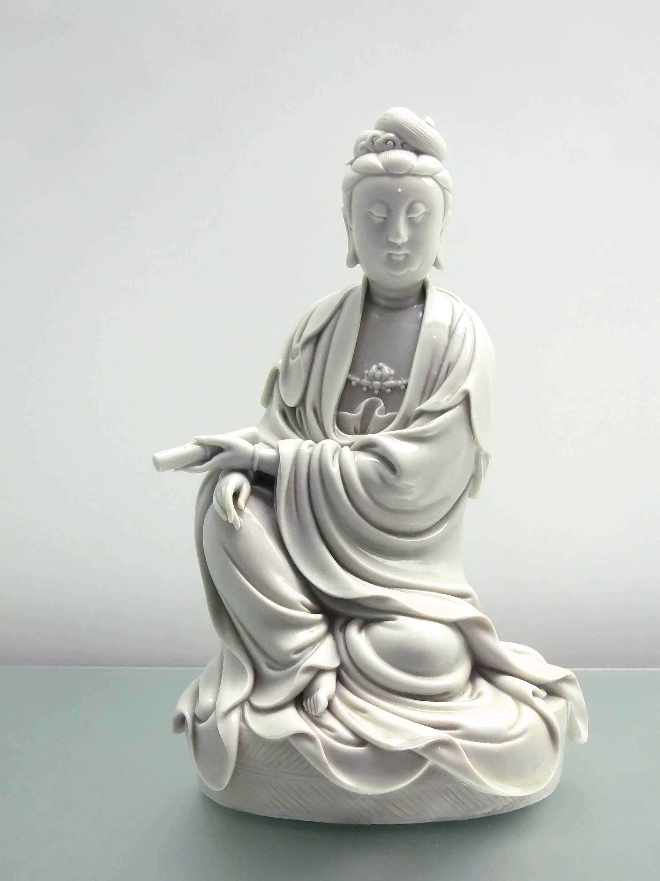 Seated Guanyin in white glaze, Dehua ware. An exhibit on display at the Hong Kong Museum of Art.